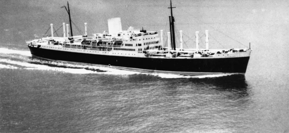 Ruahine (ship) MV Ruahine was built in 1951, measuring 17,851 gross tons. (Description supplied with photograph, modified).